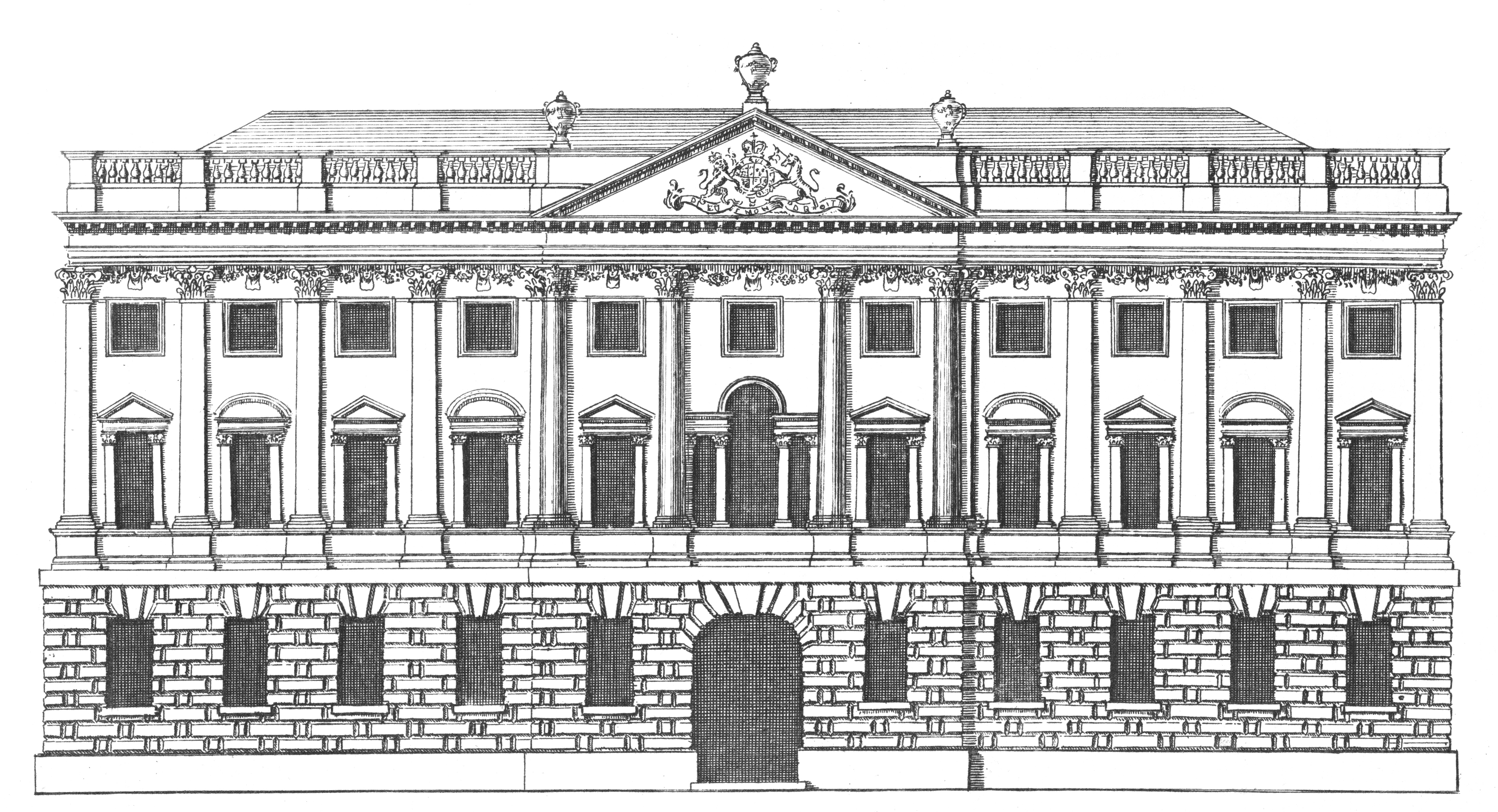 Image titled The north front of the The Exchange at Bristol, from the London Magazine (1753)